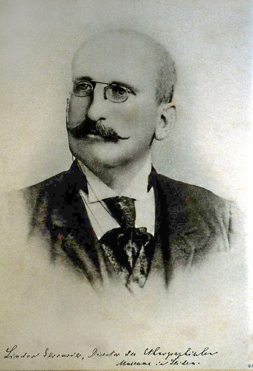 Lindor Serrurier (1846-1901), museum director (Museum of Ethnography, Leiden), specialist in Japan, Indonesia, anthropology